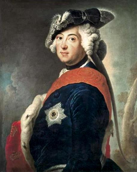 Berlin / Potsdam, Prussian Fondation of castle and gardens